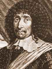 Caesar, duc de Choiseul (1602-1675)